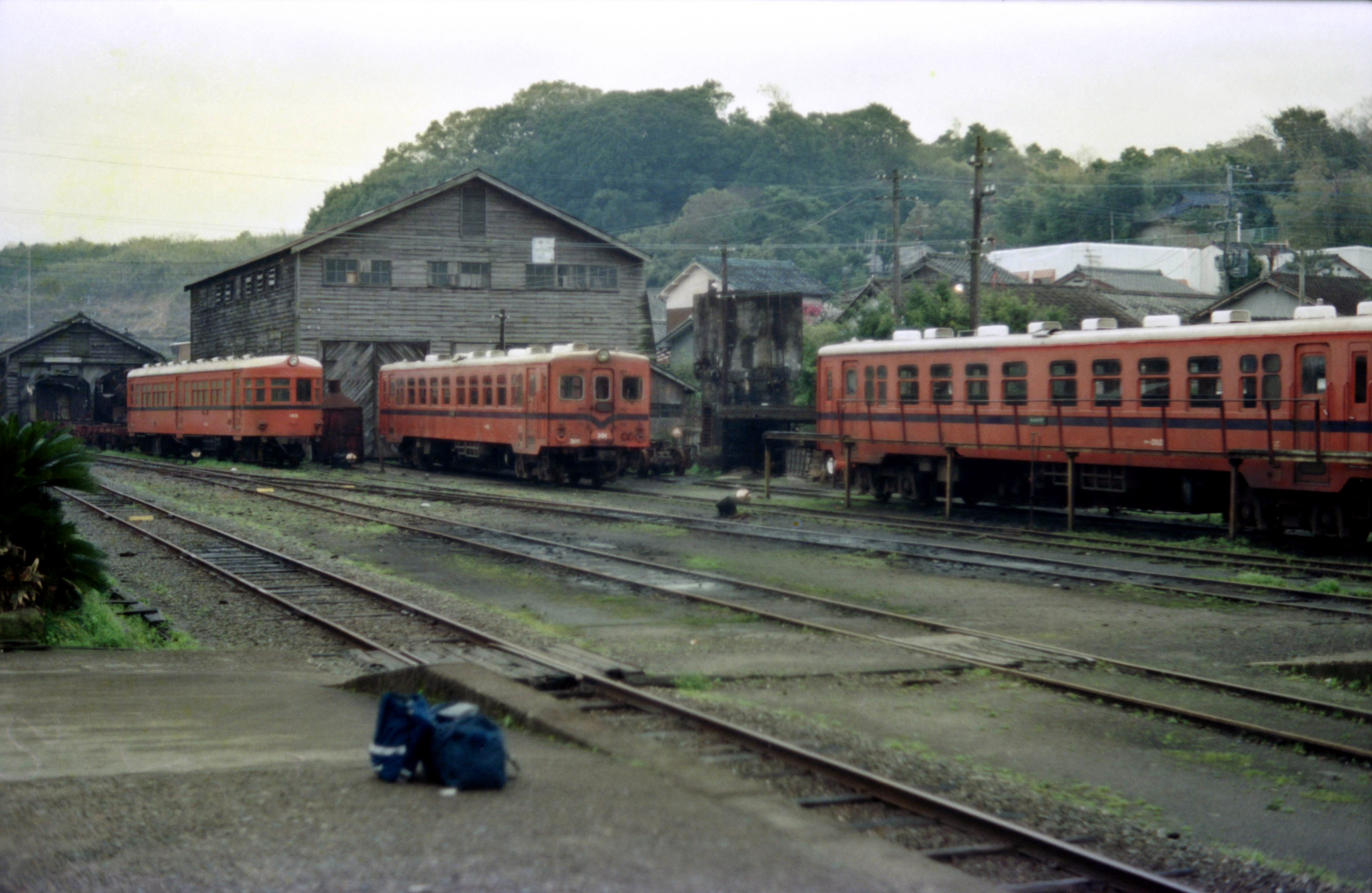 kagoshima_RW_DC_300_100_at_kaseta_sta